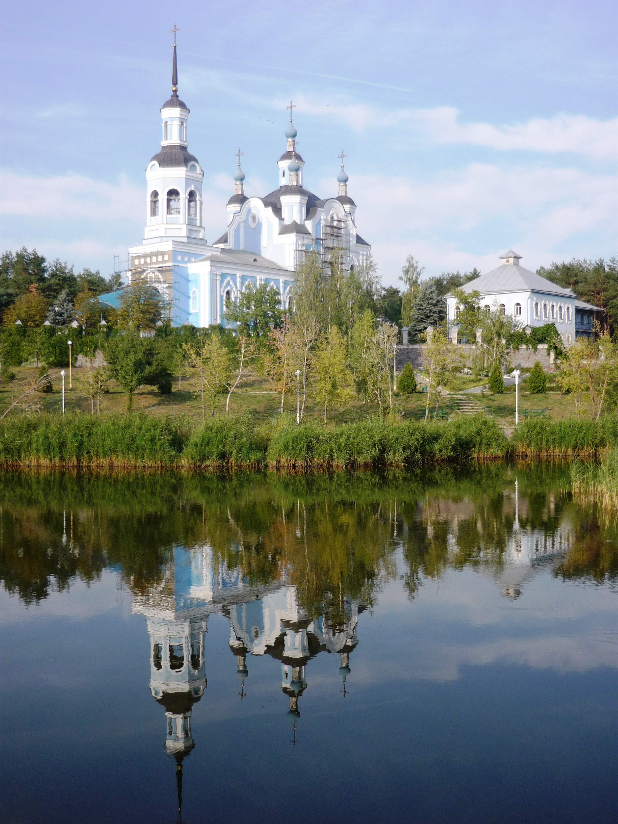 Horishni Plavni, Poltava Region, Ukraine